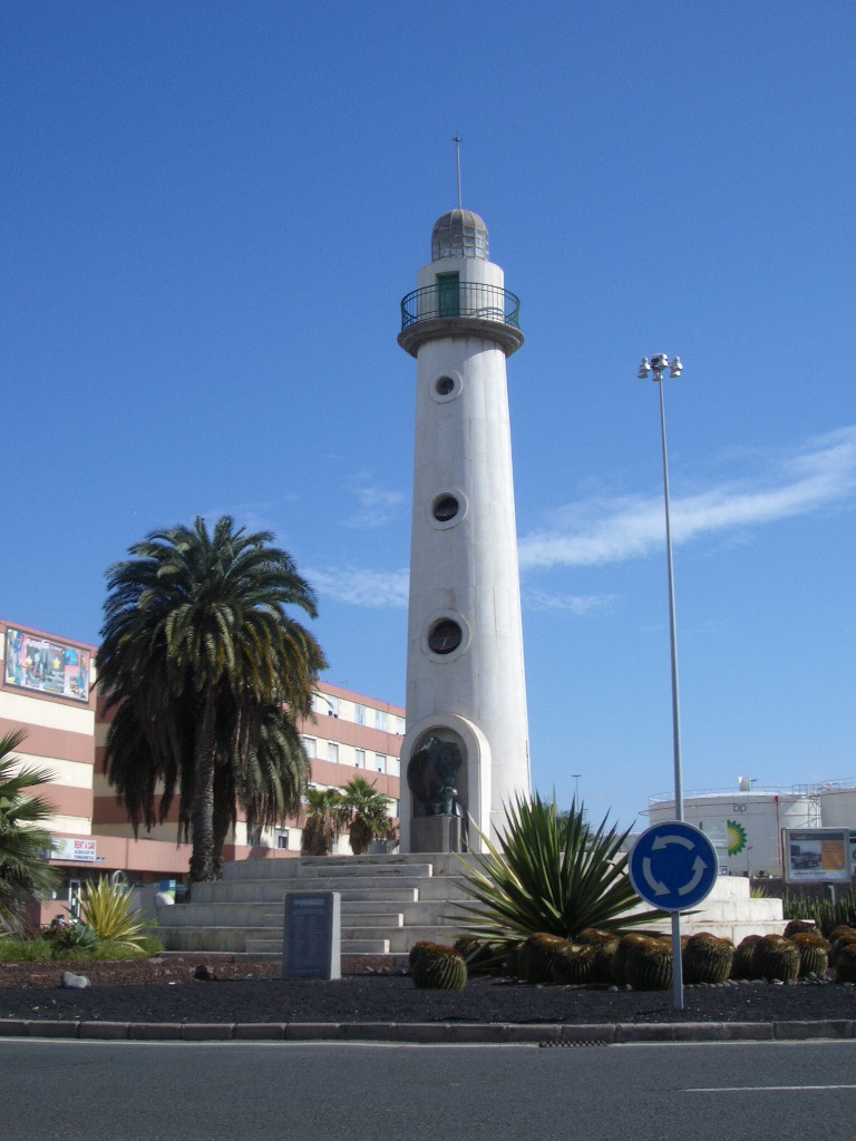 Lighthouse allegorical and monument to Belén María (Federico Hernández Corujo, 1982). Rotunda entry to the port of Las Palmas, next to gardens access to old "Muelle Grande". Las Palmas de Gran Canaria, Canary Islands (Spain)